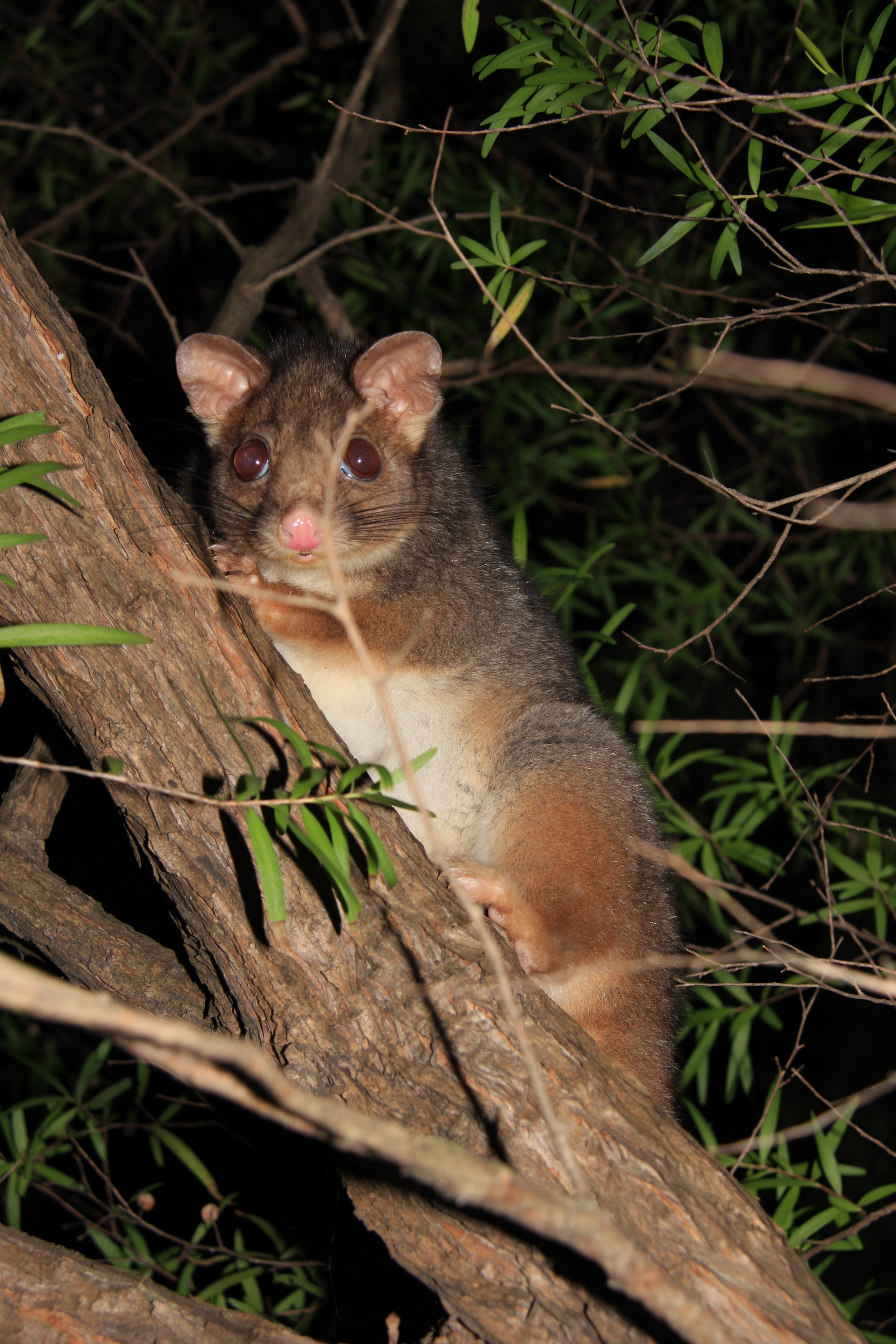 Possum at night